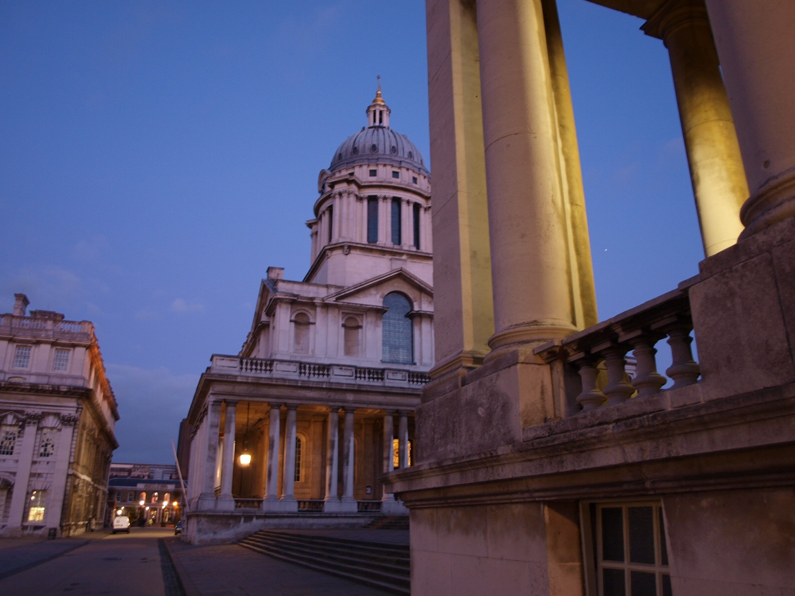 Royal Naval College Queen Mary's Quarter